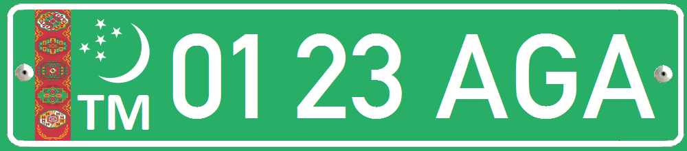 Governmental license plate in Tukmenistan